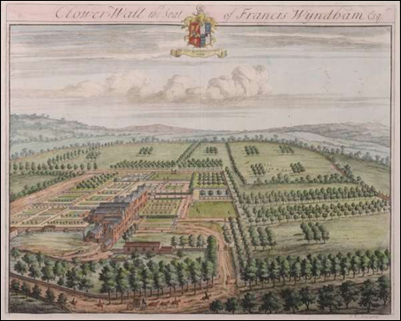 "Clower=wall the seat of Francis Wyndham Esq." Clearwell, Forest of Dean, Gloucestershire. On the site of the house depicted now stands Clearwell Castle